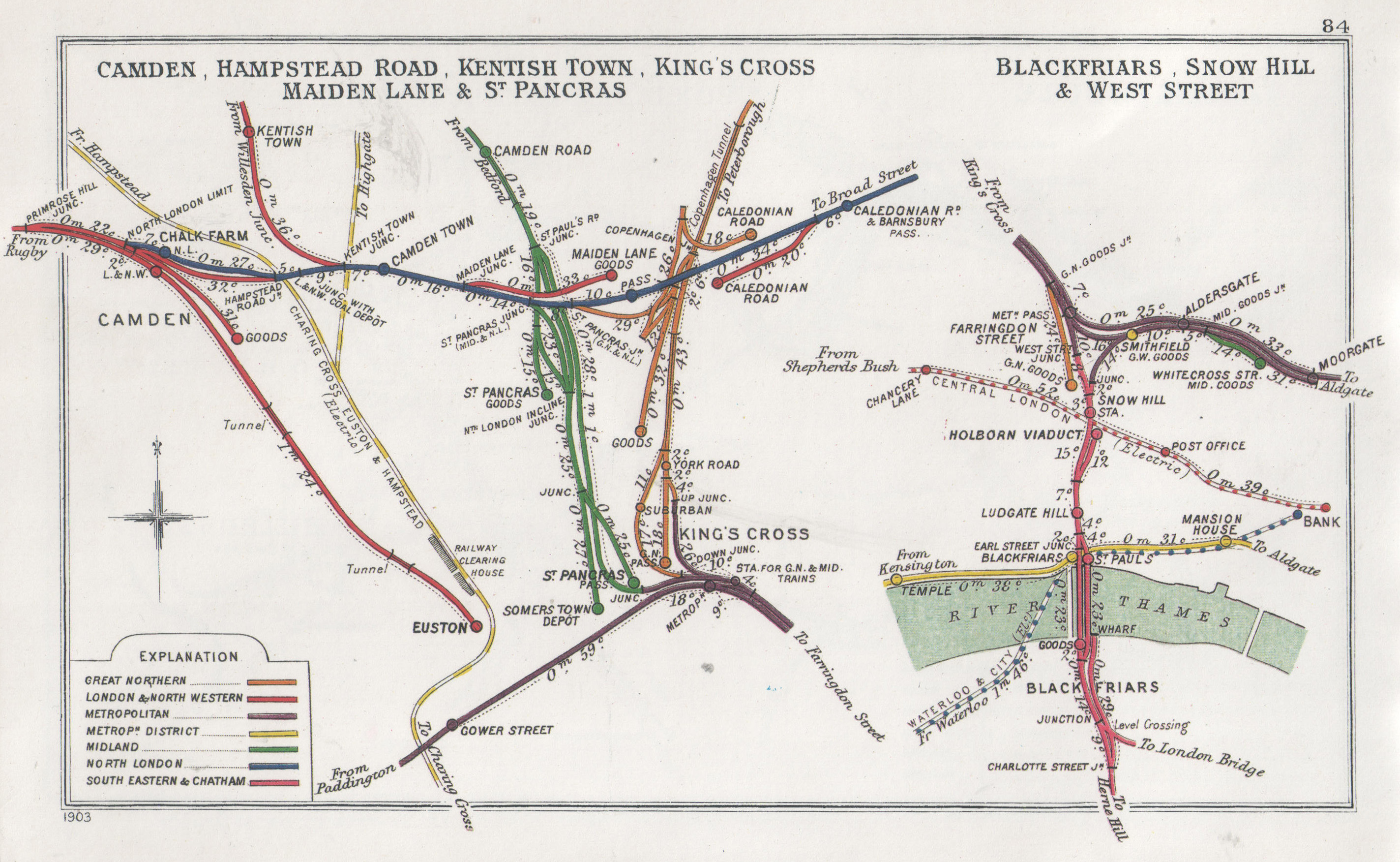 Pre Grouping railway junction around Camden, Hampstead Road, Kentish Town, King's Cross, Maiden Lane & St Pancras; Blackfriars, Snow Hill & West Street